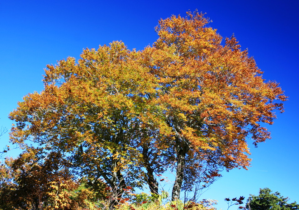 Fagus crenata in Mount Ogasa, Toyama prefecture, Japan.